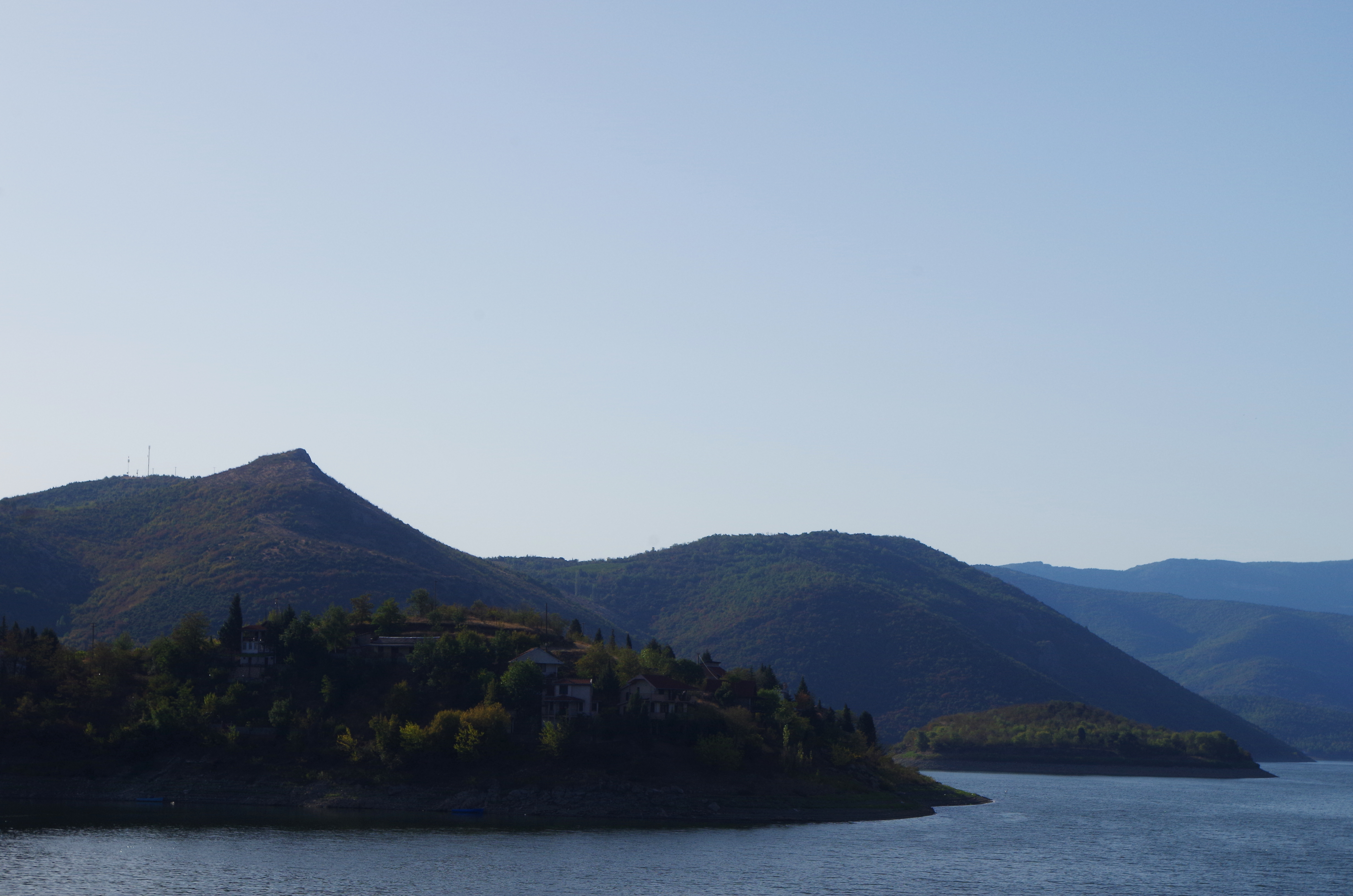 Houses in the settlement of Brušani on the shore of Lake Tikveš